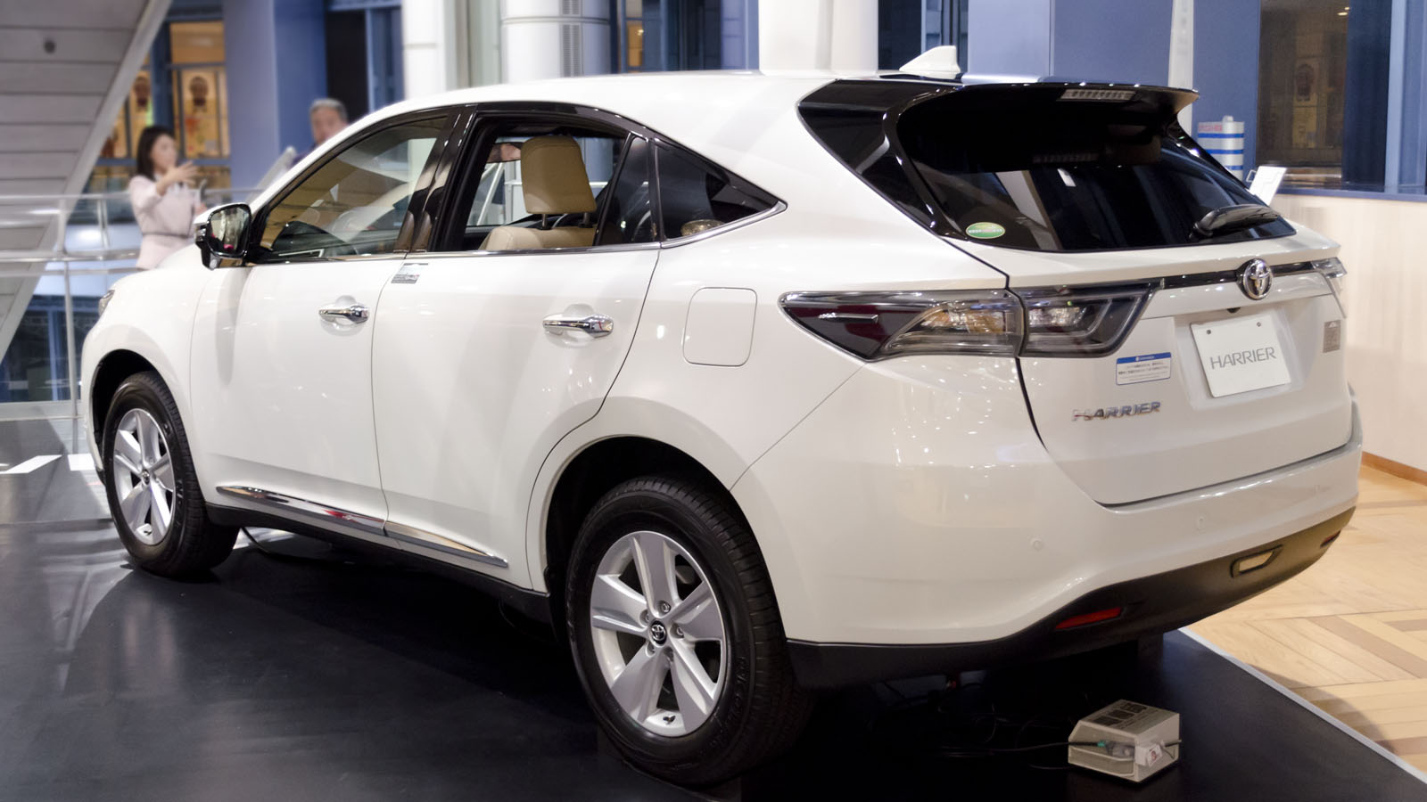 3rd generation Toyota Harrier